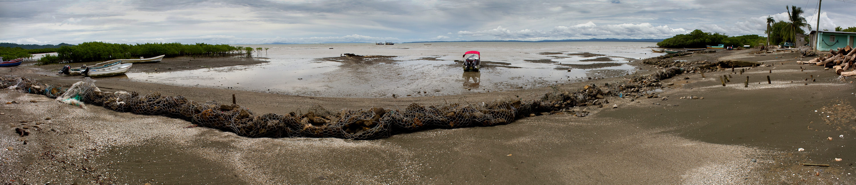 Panorama of beach at Garachiné, Panama